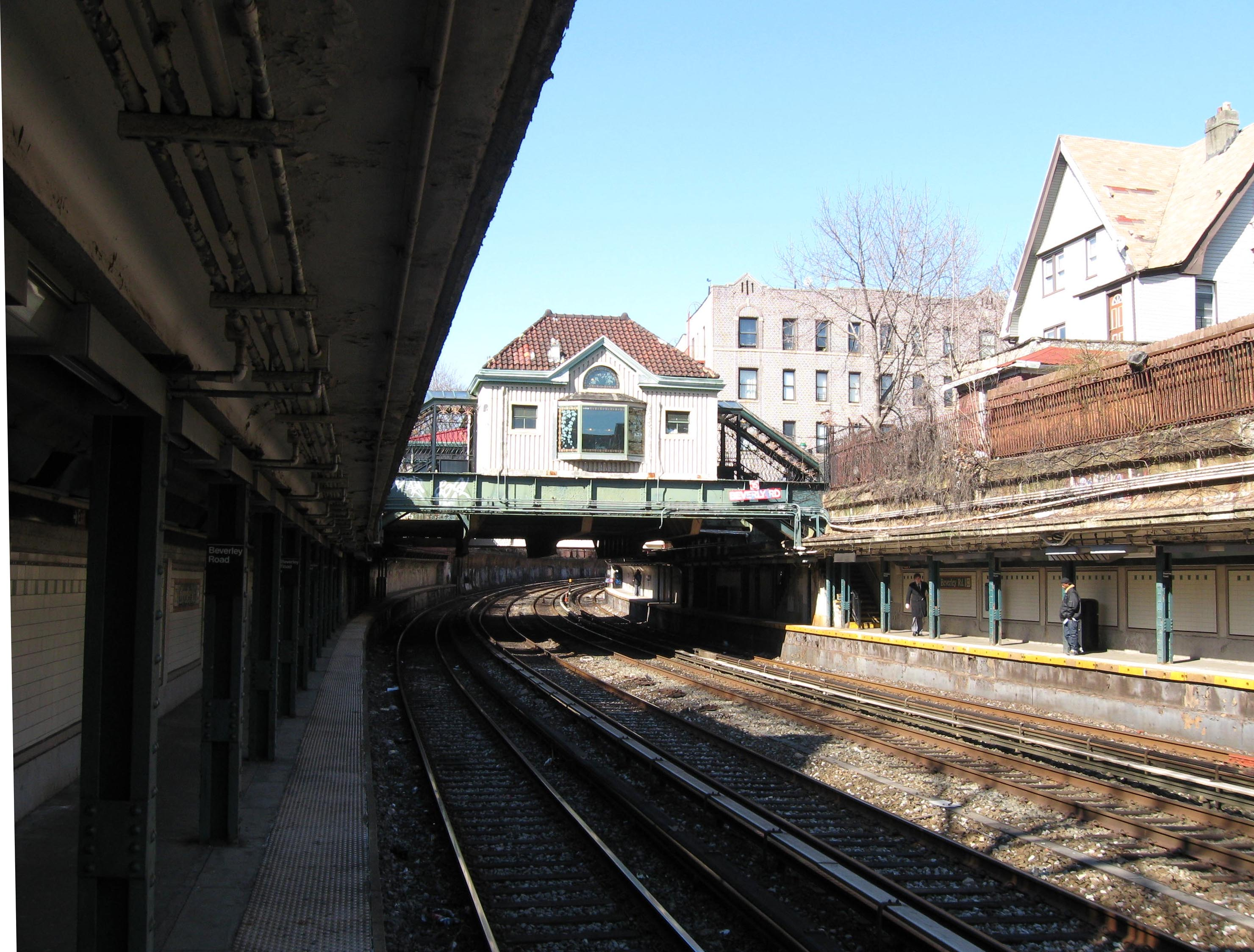 Station House of Beverley Road subway station. I took this picture from the southbound platform in the early afternoon of a sunny day in early spring.